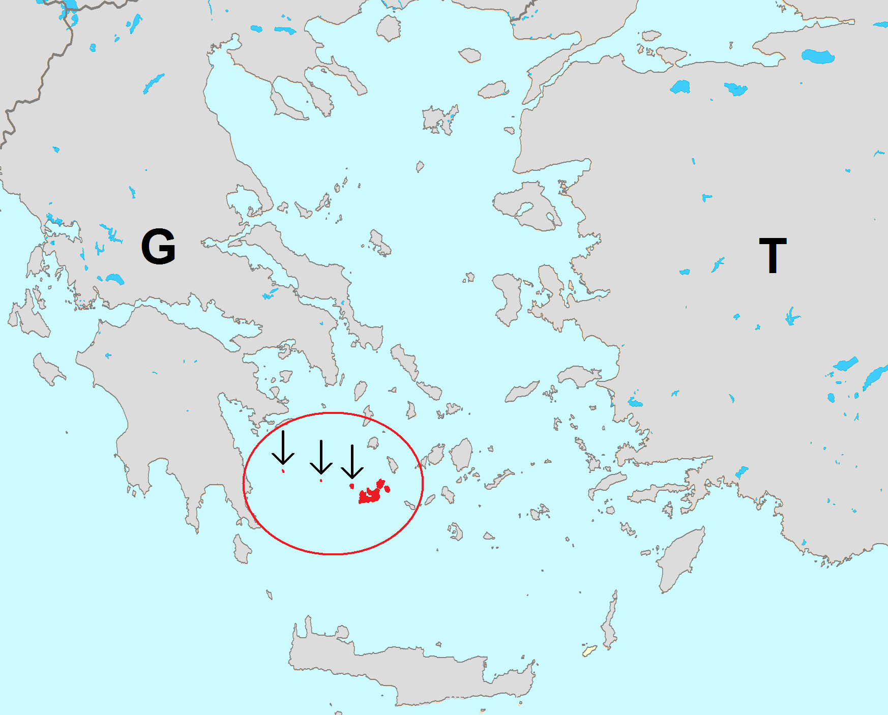 A blank map of Greece with most important topographic features (lakes, rivers)